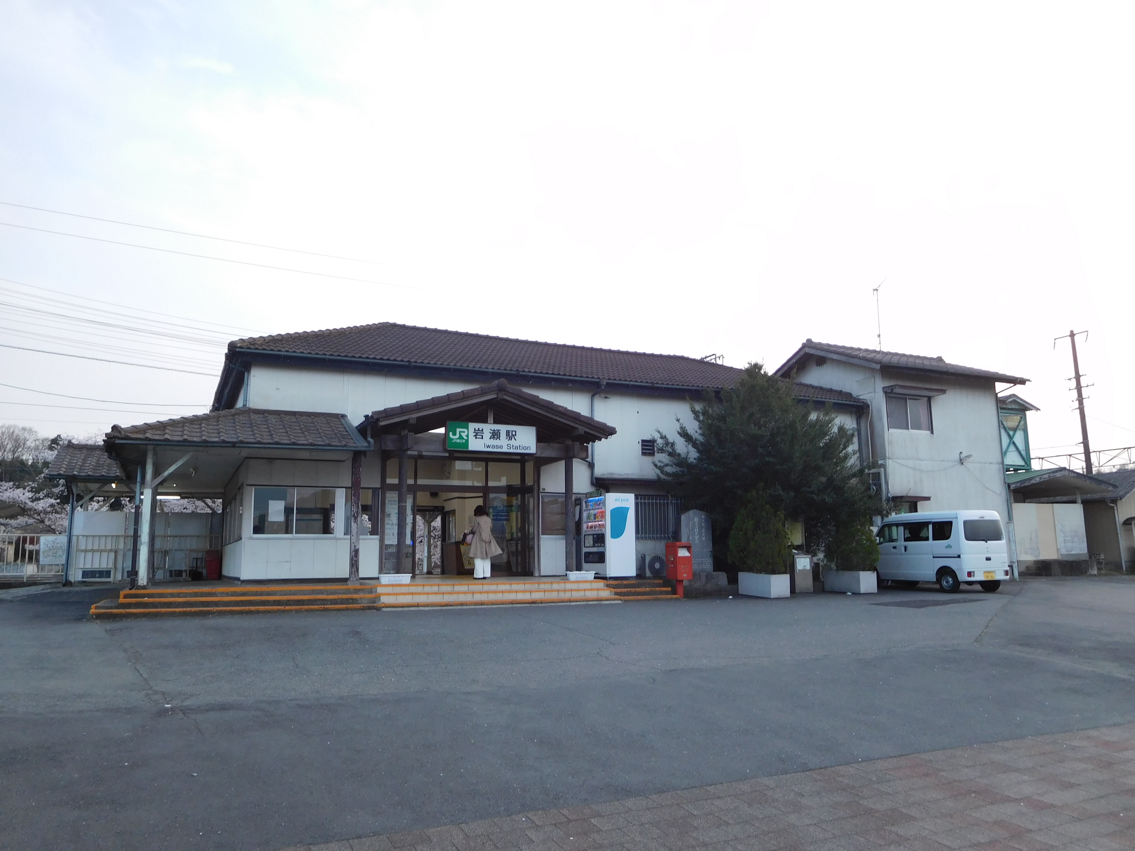 This is JR Mito Line Iwase station in Sakuragawa, Ibaraki, Japan.